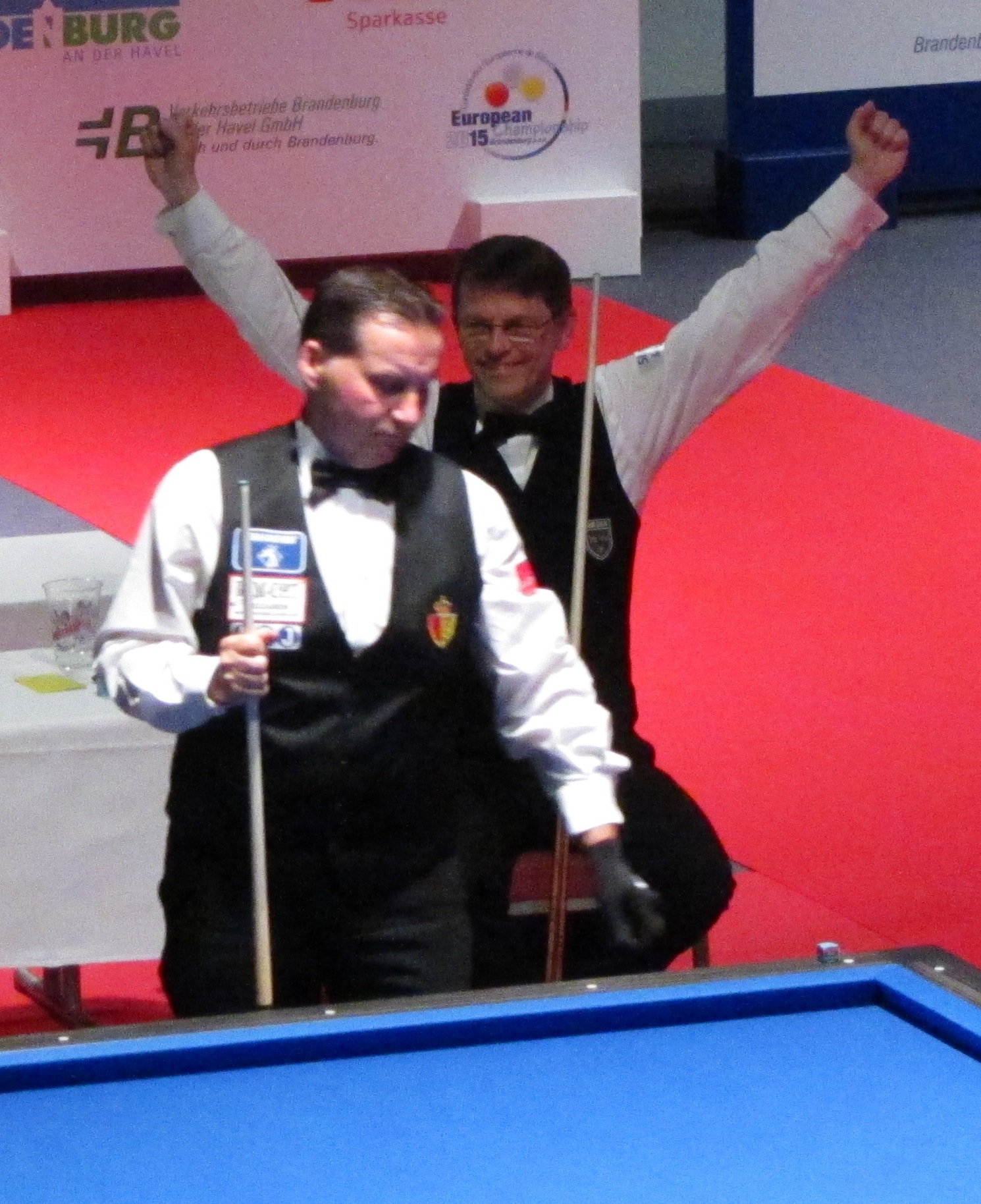 3-Cushion-Finals: Torbjörn Blomdahl (SWE) vs. Eddy Merckx (BEL). Blomdahl wins